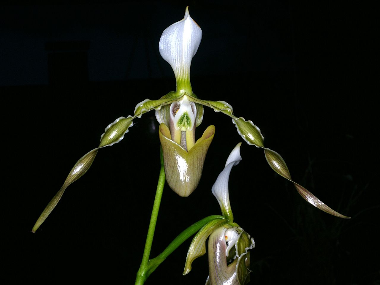 Paphiopedilum dianthum